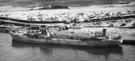 Sourced from: Copyright: The AWM record for this photo states that the copyright status is 'clear'. The photo was taken during or prior to June 1943. AWM Caption: FREMANTLE, WA. AERIAL PORT SIDE VIEW OF THE NORWEGIAN TANKER FERNCASTLE, WHICH WAS SUNK BY THE GERMAN AUXILIARY CRUISER MICHEL 1800 MILES WEST NORTH WEST OF PERTH ON 1943-06-17. AN RAN DEMS RATING WAS LOST IN THE ACTION. NOTE THE 4 INCH GUN MOUNTED AFT. (NAVAL HISTORICAL COLLECTION)